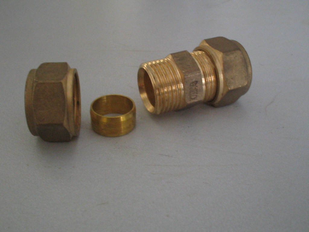 Compression fitting 12 mm straight